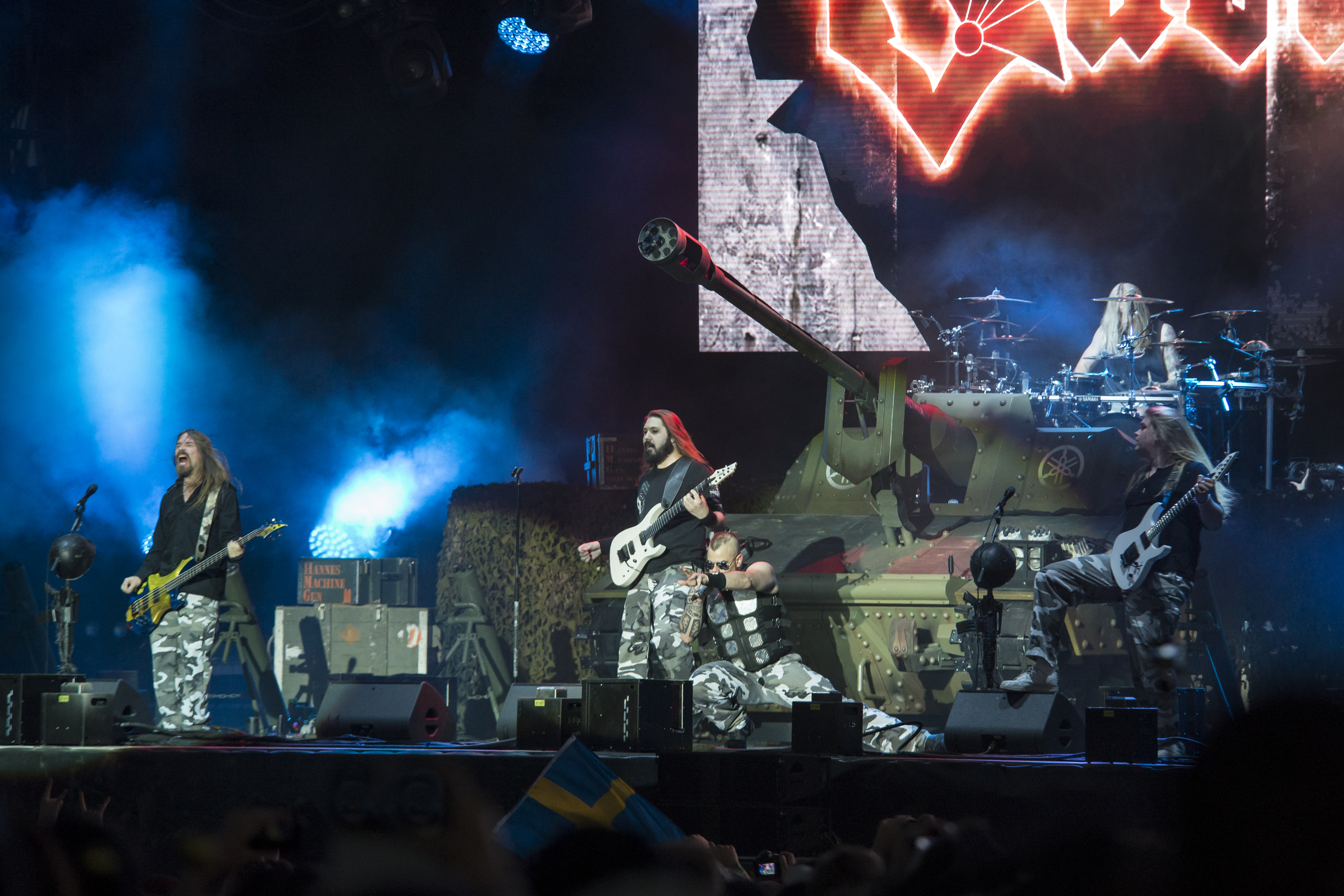 Sabaton show at 2017 Hellfest, France.